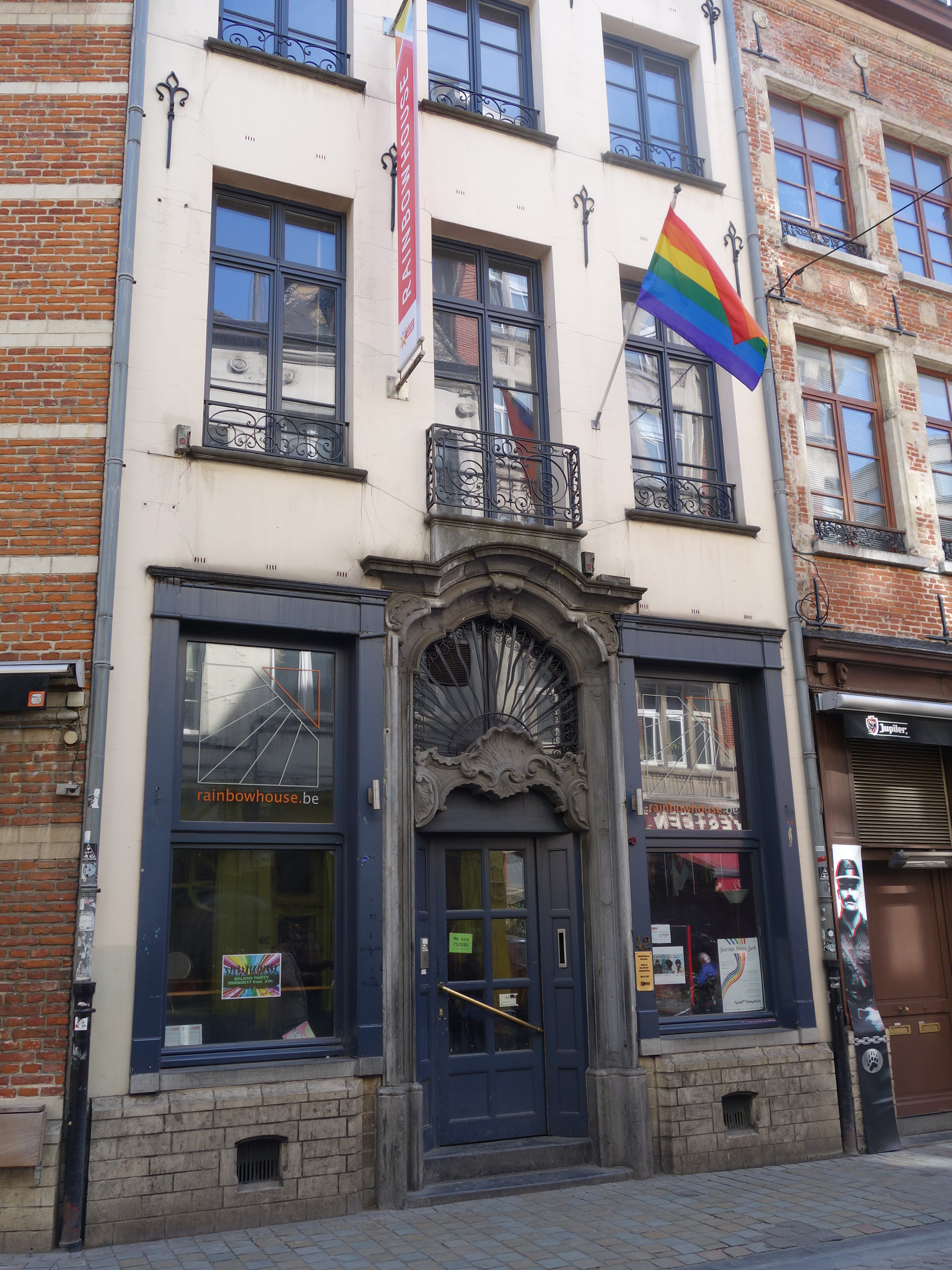 Rainbow House (Kolenmarkt 42, Brussels)